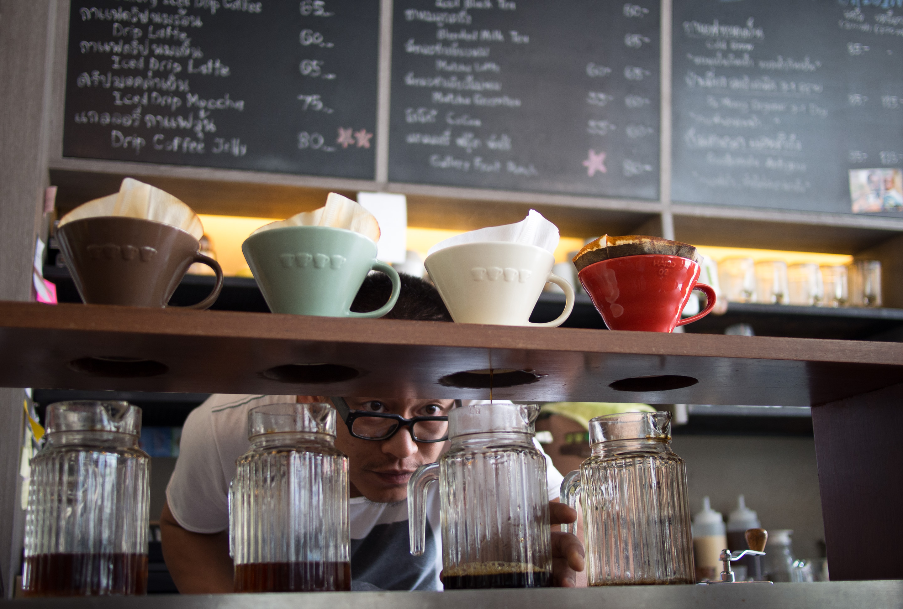 A coffee shop in the Bangkok Art and Cultural Centre that specialises in drip coffee.